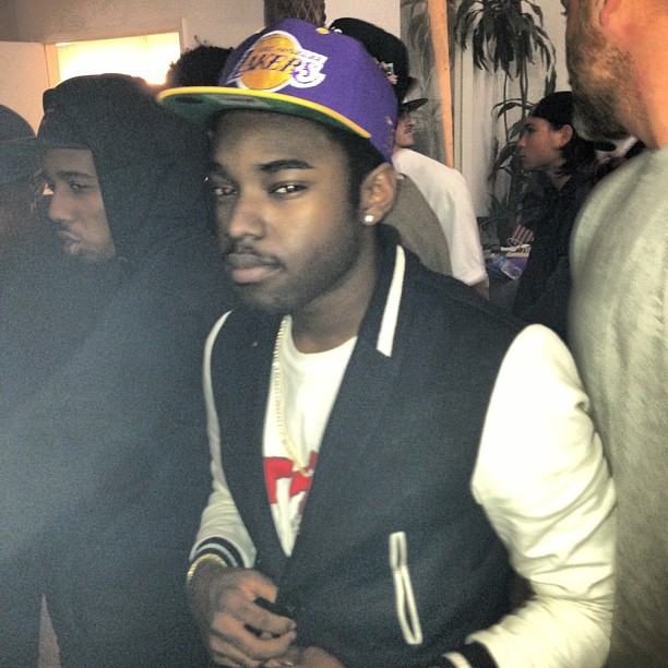 DJ A-Tron at a event